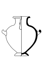 GIF - Kalpis